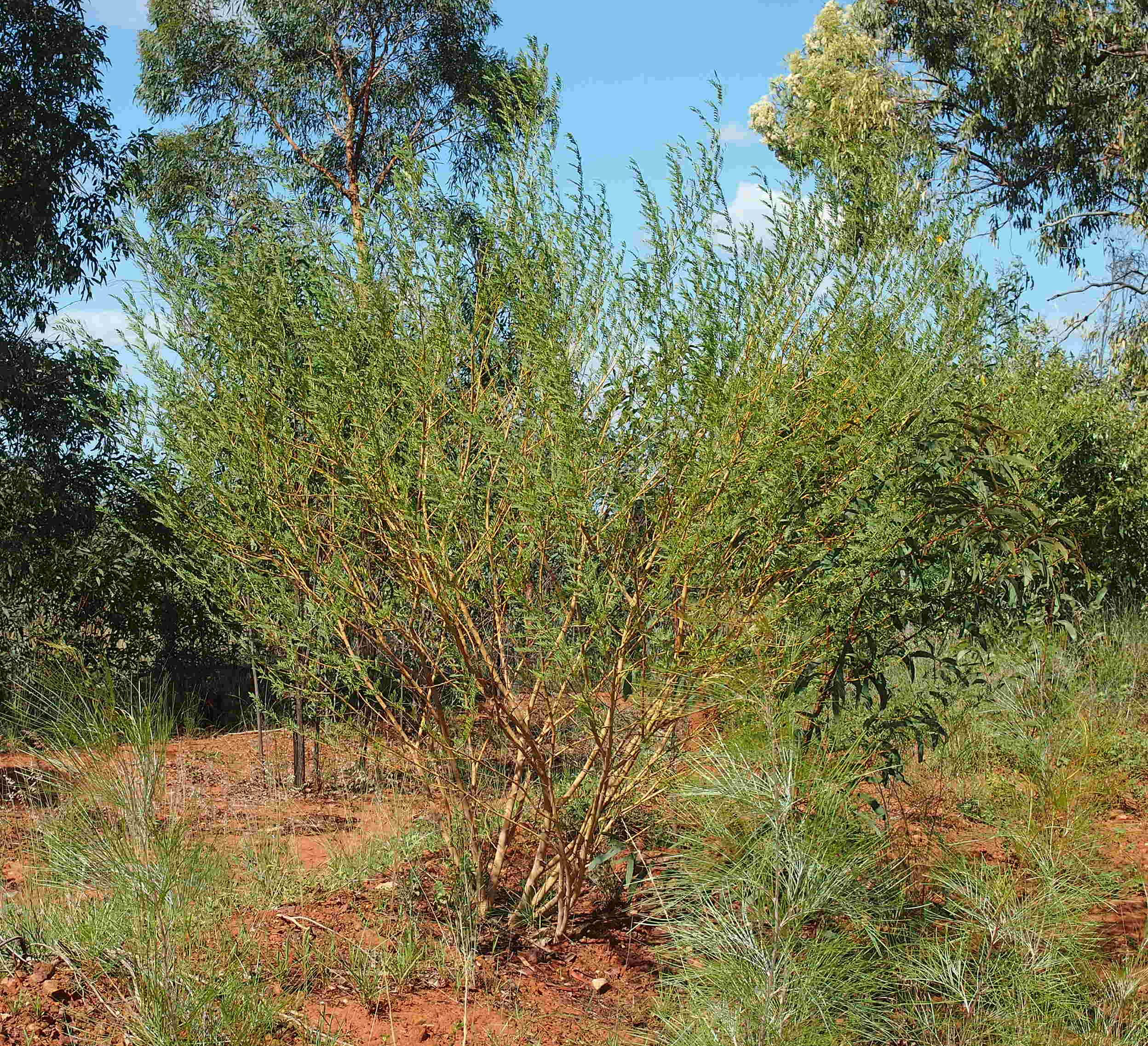 Petalostylis labicheoides